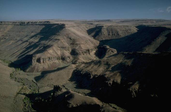 Aerial view of Trout Creek Canyon in the Trout Creek Mountains of southeastern Oregon.